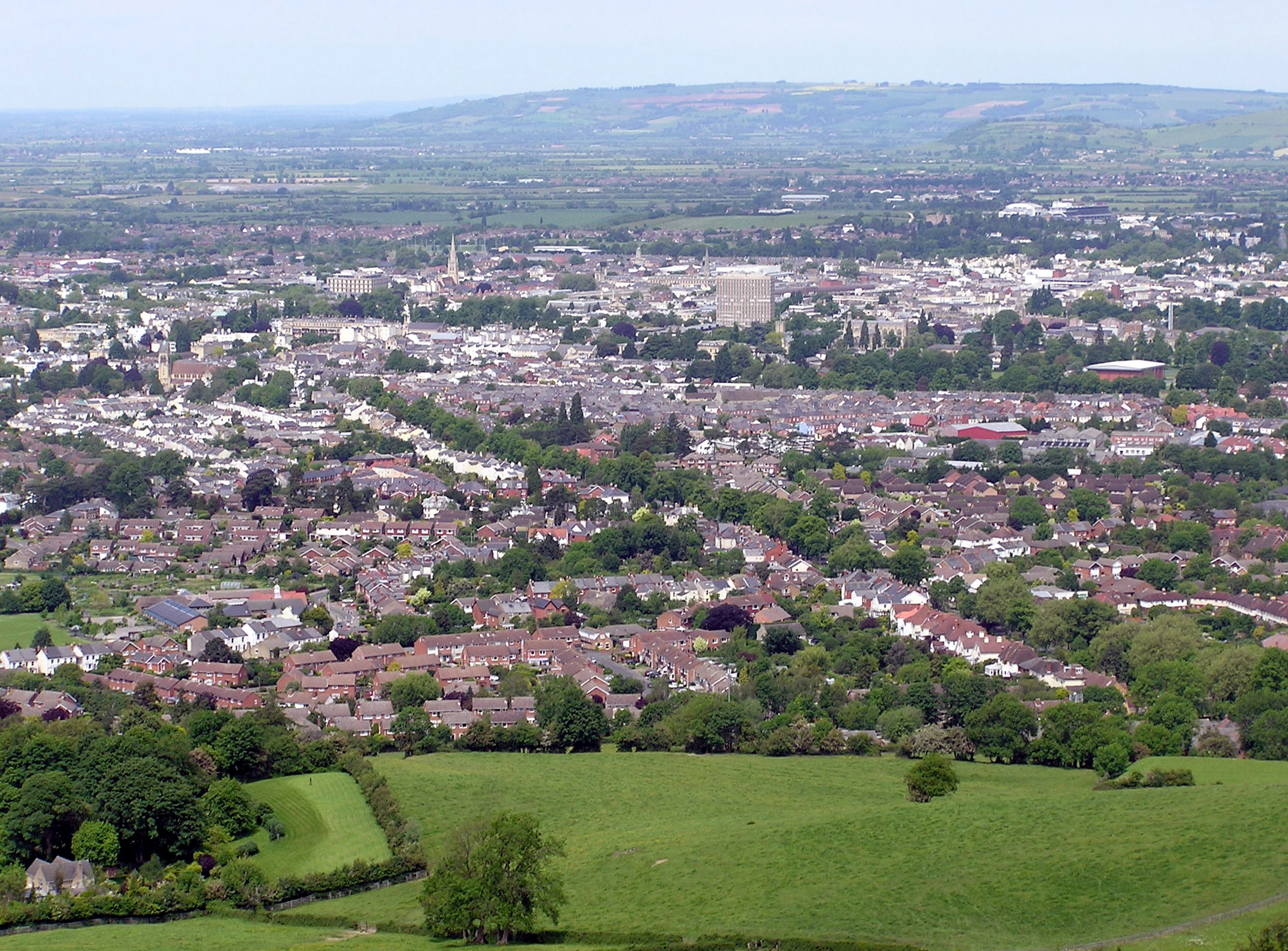 Cheltenham, Gloucestershire, England, looking north from Leckhampton Hill, with Bredon Hill in the far distance and Woolstone Hill to the right in the medium distance. Photographed by Adrian Pingstone in June 2006 and placed in the public domain.